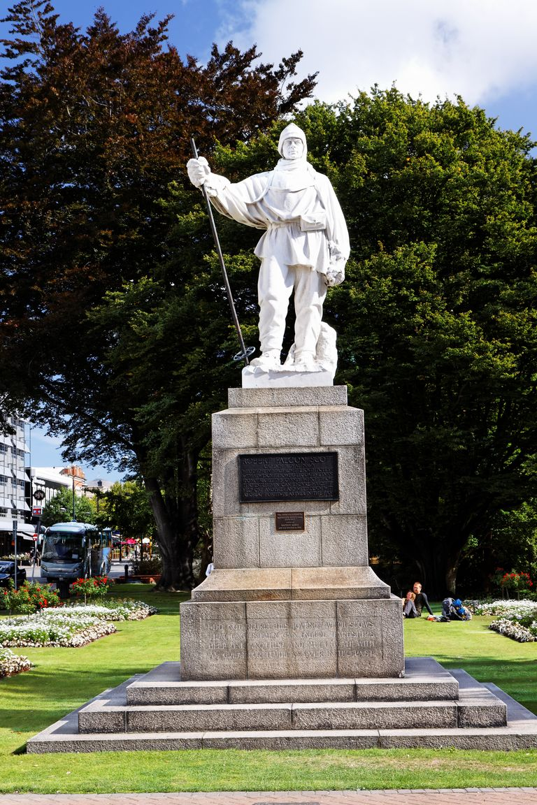 20100131-60-Robert Falcon Scott statue